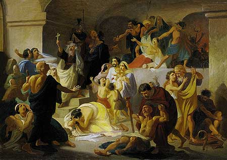 Christian martyrs in the Colosseum, study